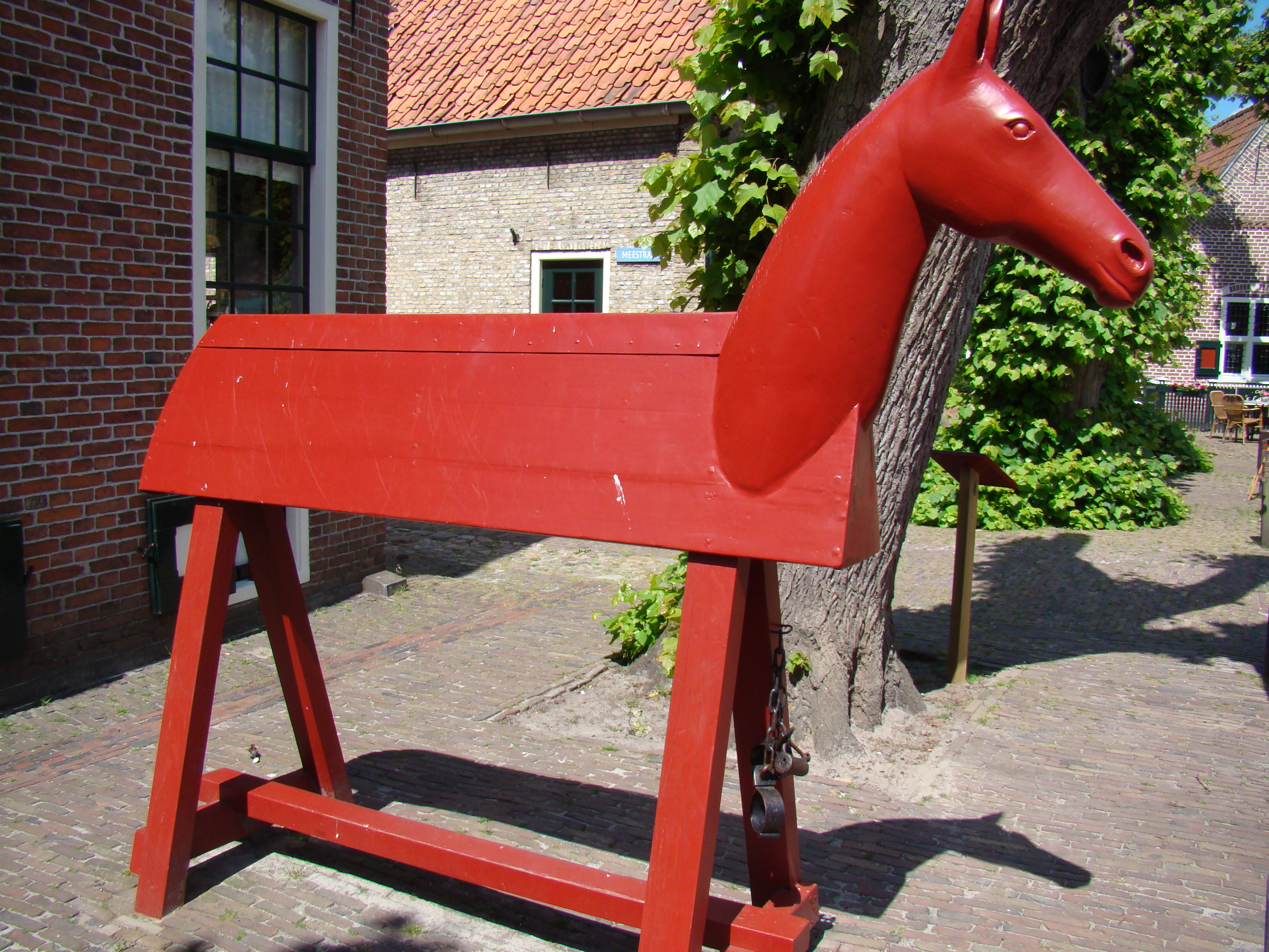 Impressions of Bourtange, Netherlands Strafpaard